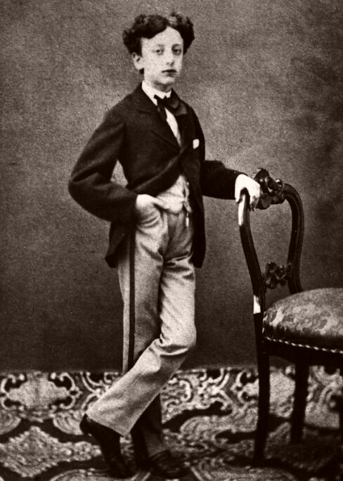 Gabriele D'Annunzio, age 7